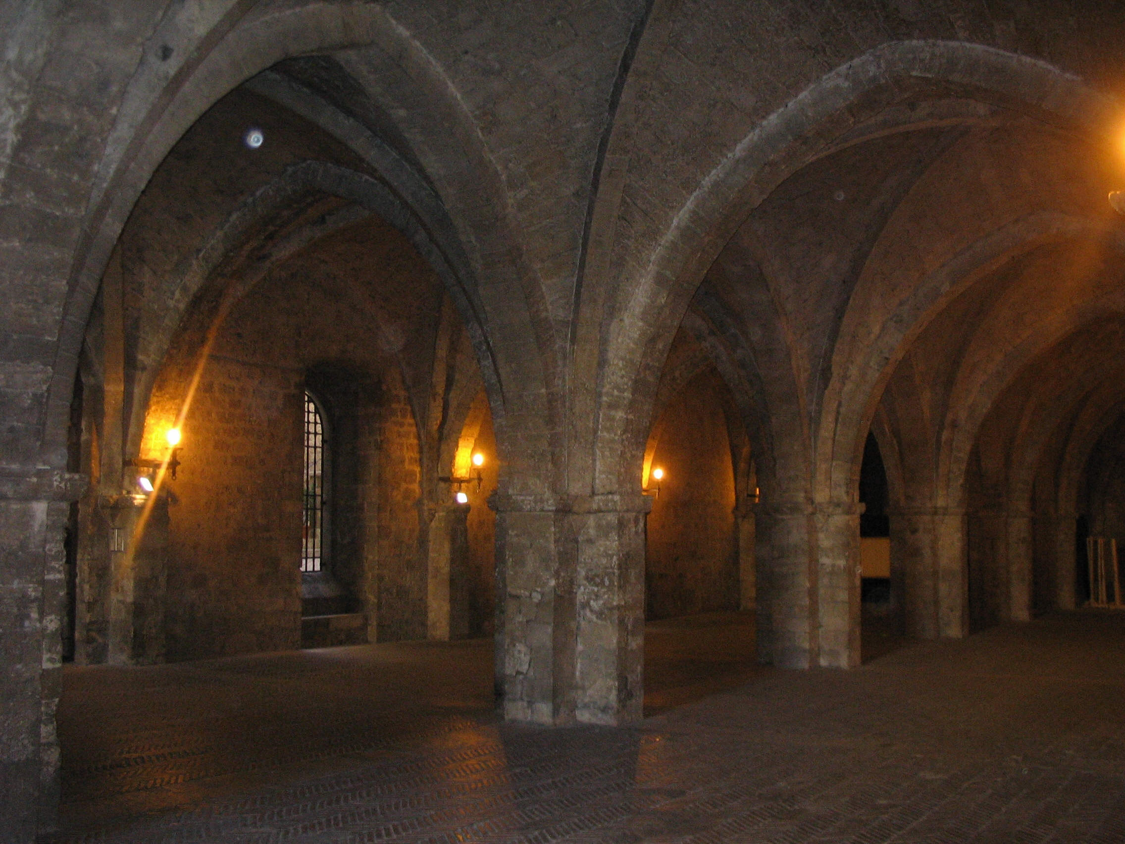 Palazzo Vescovile - Loggia - Rieti, Lazio, Italia